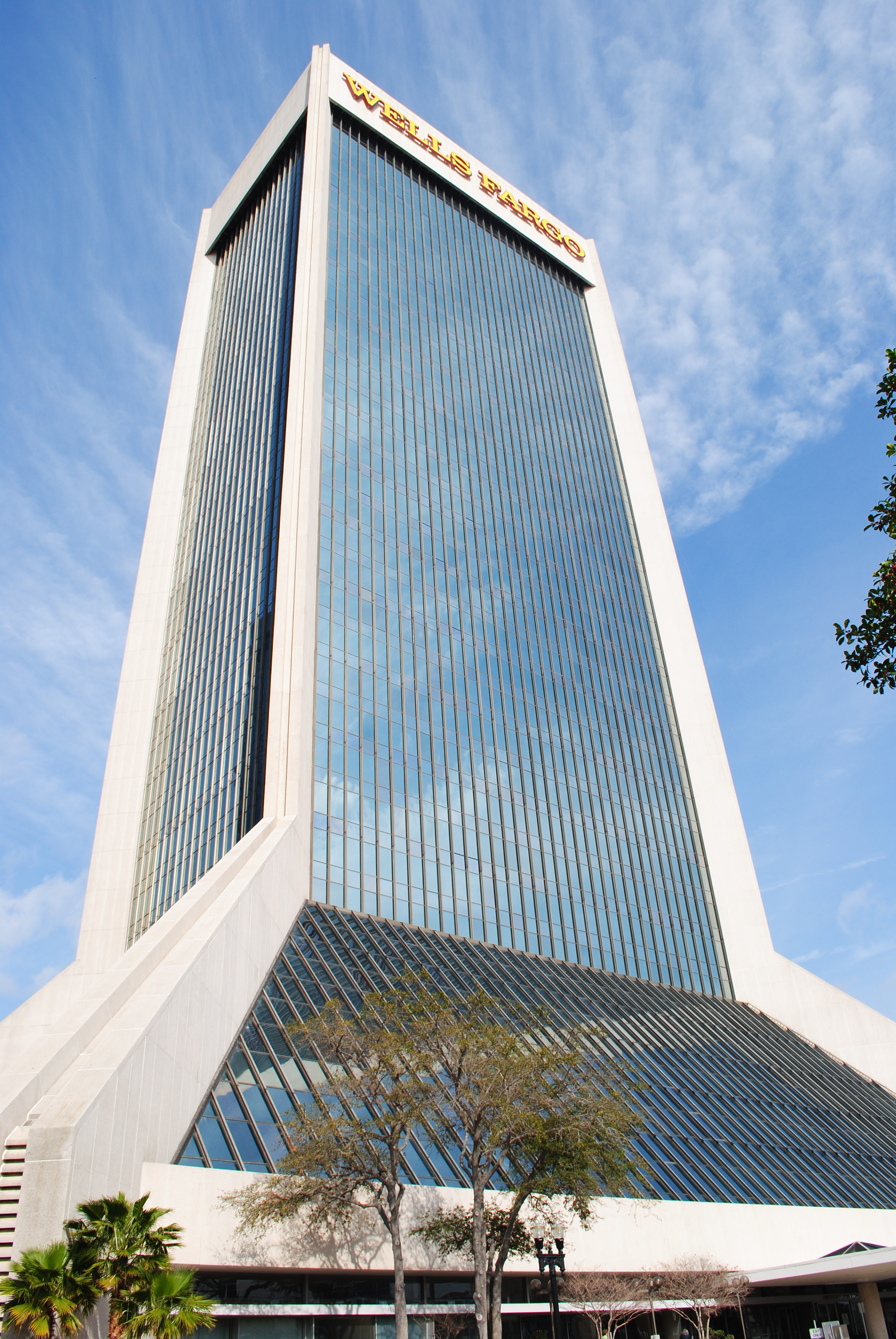 Wells Fargo Center